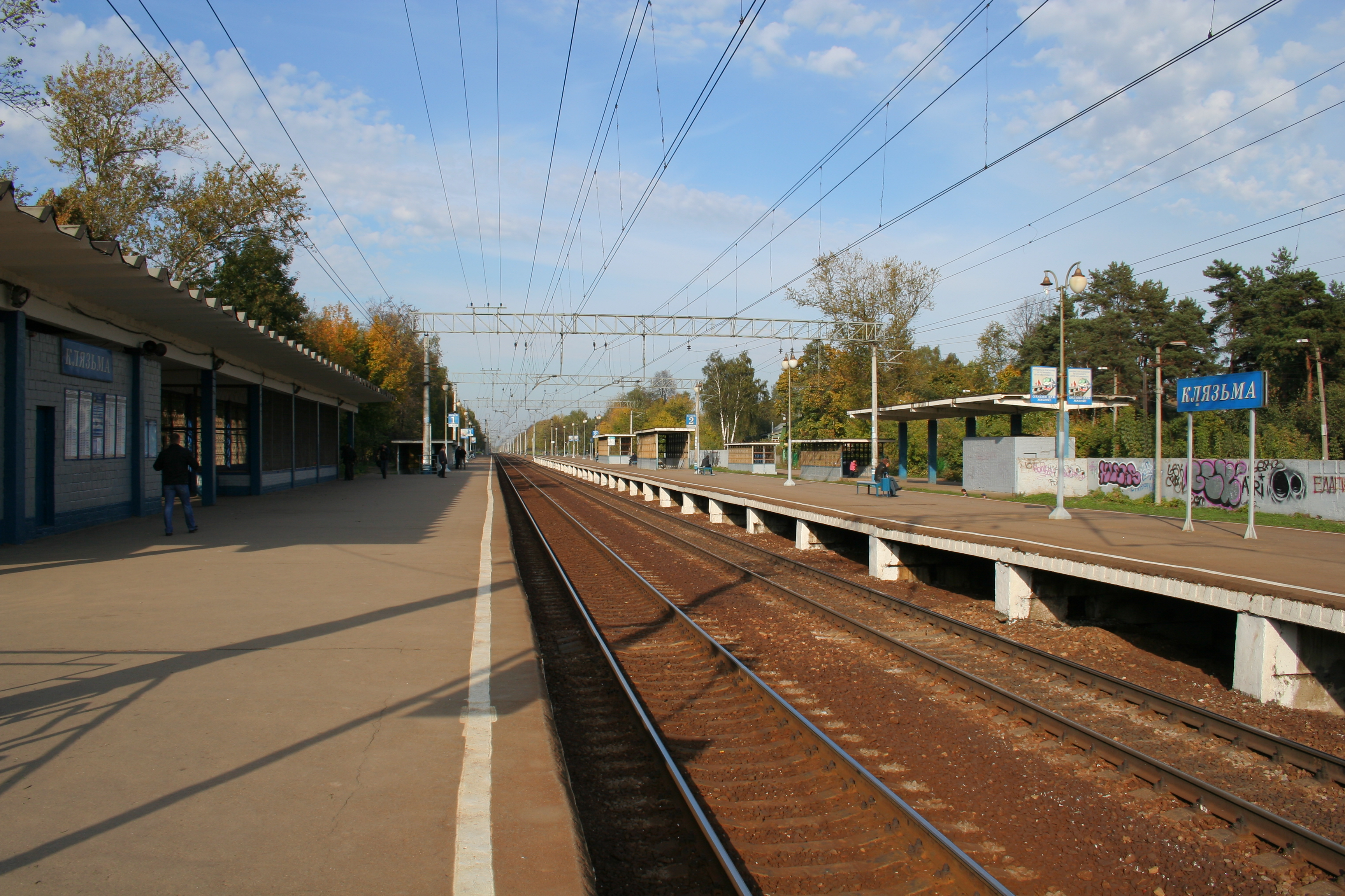 Train stop Klyazma, Moscow Oblast